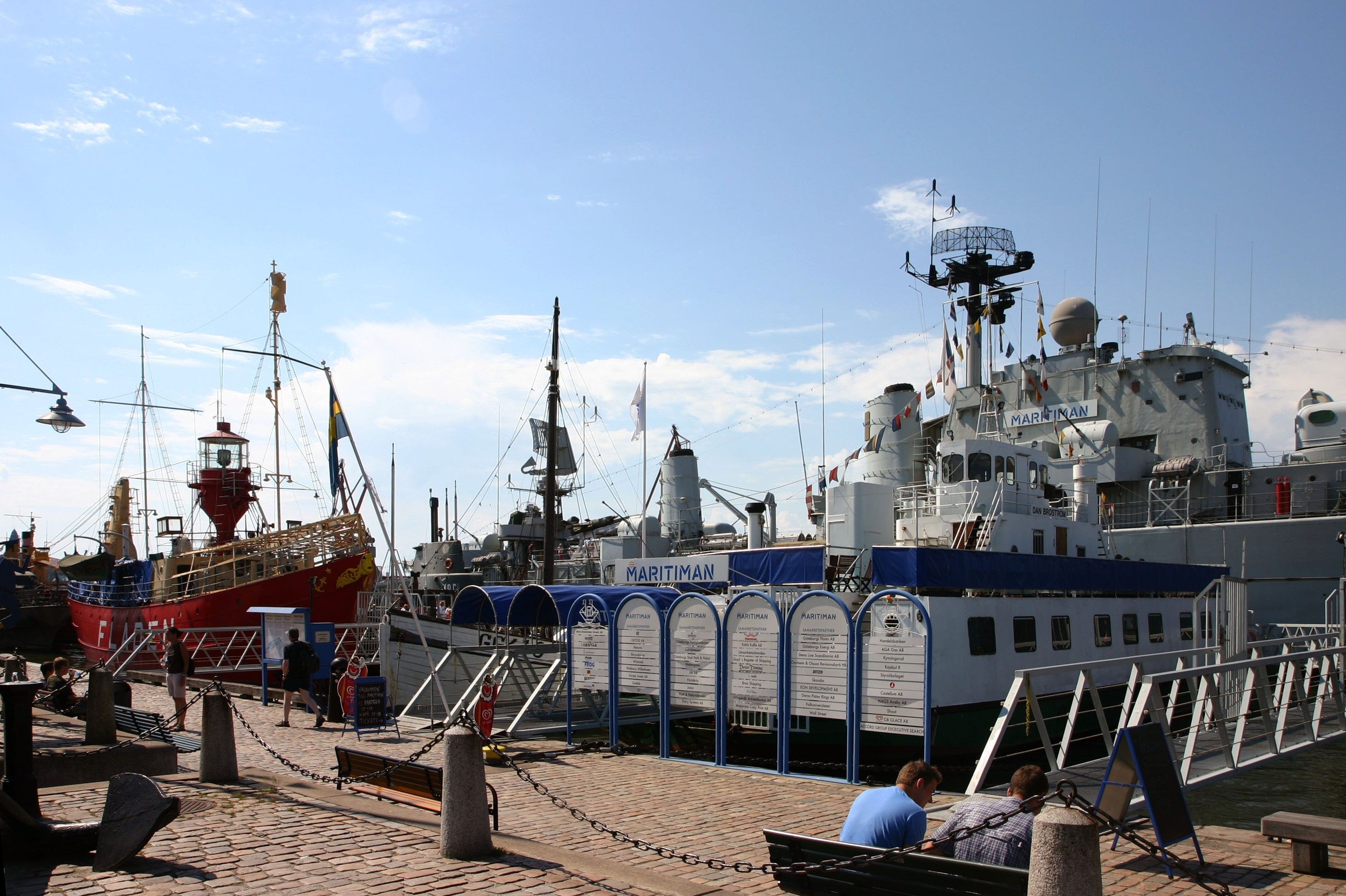 Entrance and view over the Gothenburg Maritime Centre, a boat-museum.